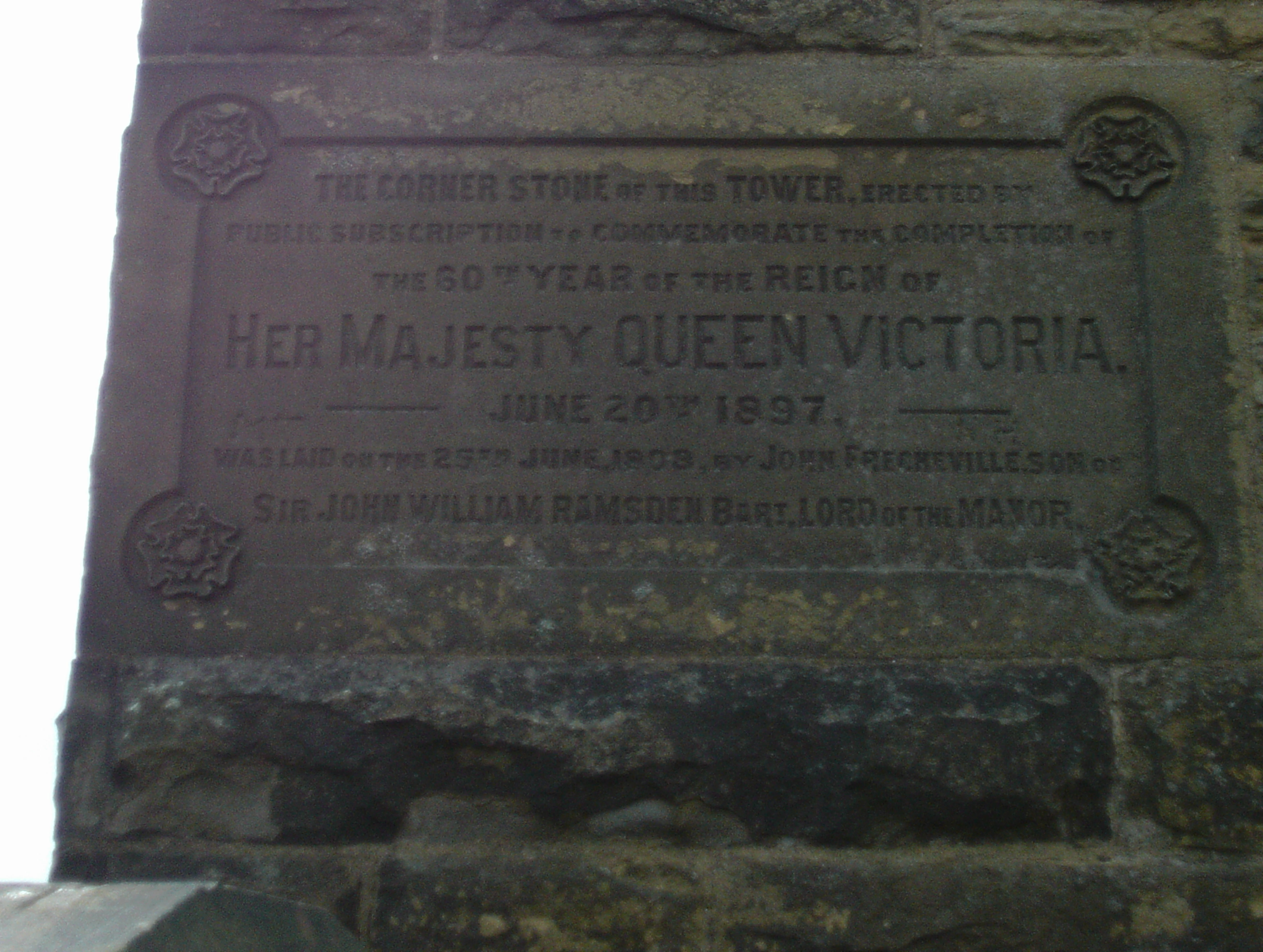 The first stone of Victoria Tower on castle Hill in Huddersfield.